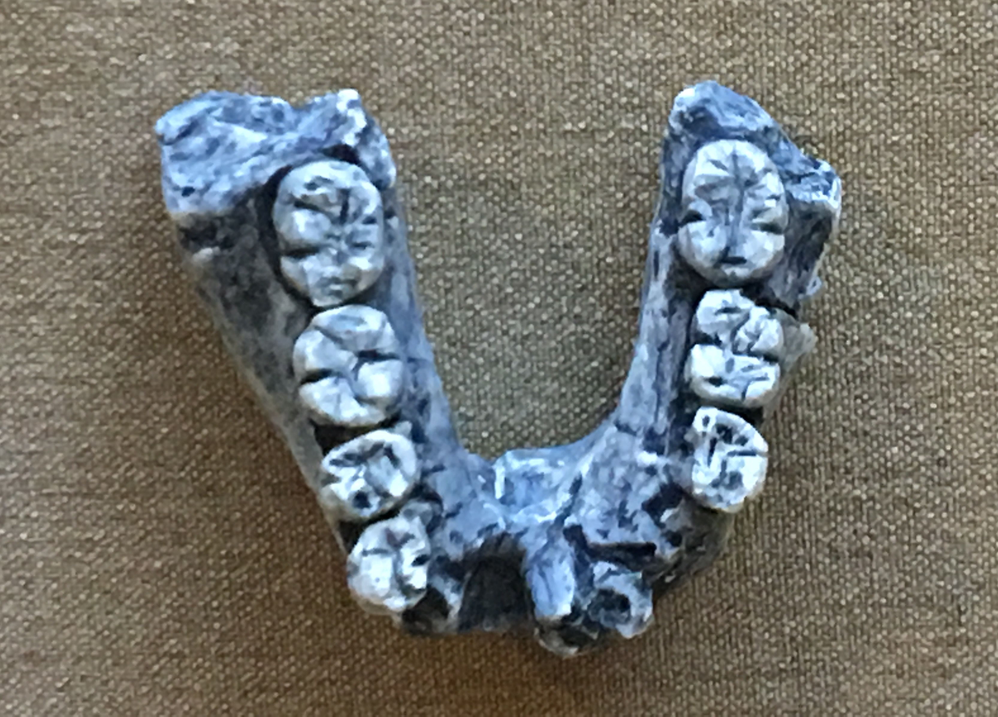 Hominid fossil reconstruction in the Beijing Museum of Natural History - China, July 2017. Lower jaw.